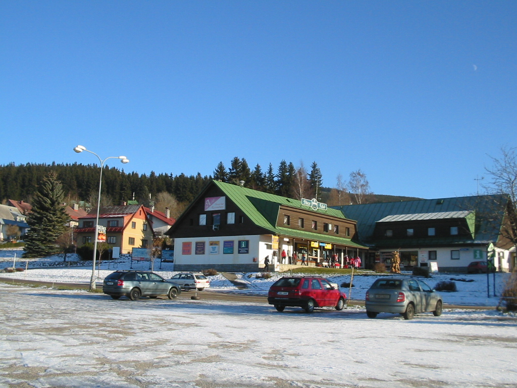 service centre in Benecko, Czech Republic